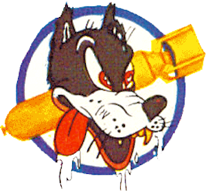 Emblem of the 377th Bombardment Squadron